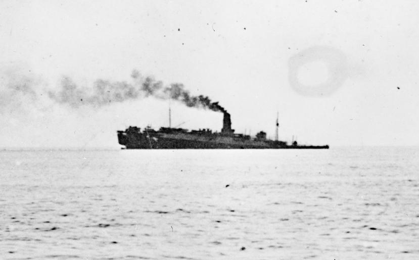 The Sinking of the Cunard Liner Ss Lancastria Off St Nazaire